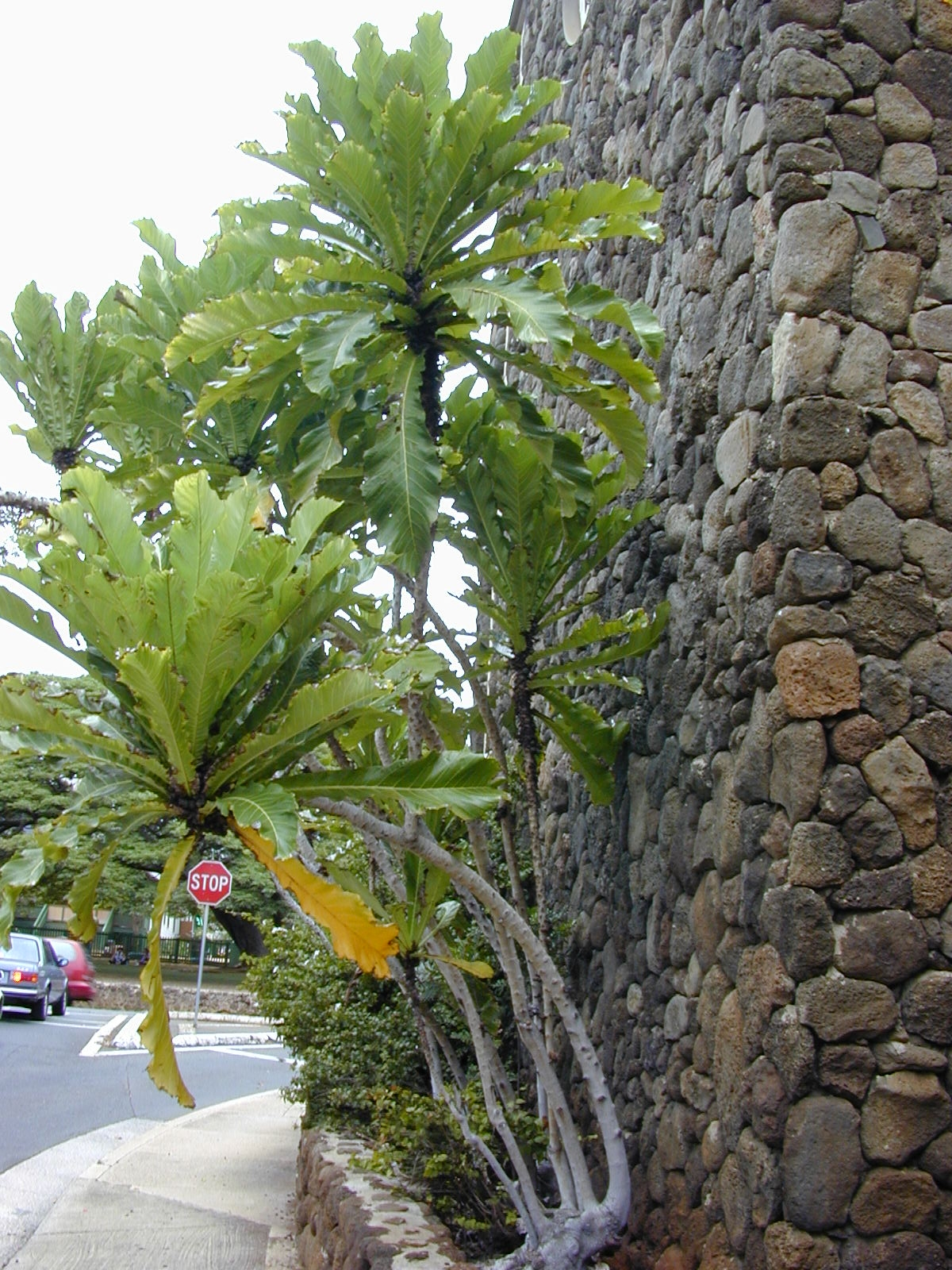 Ficus pseudopalma (profile). Location: Maui, State building Wailuku